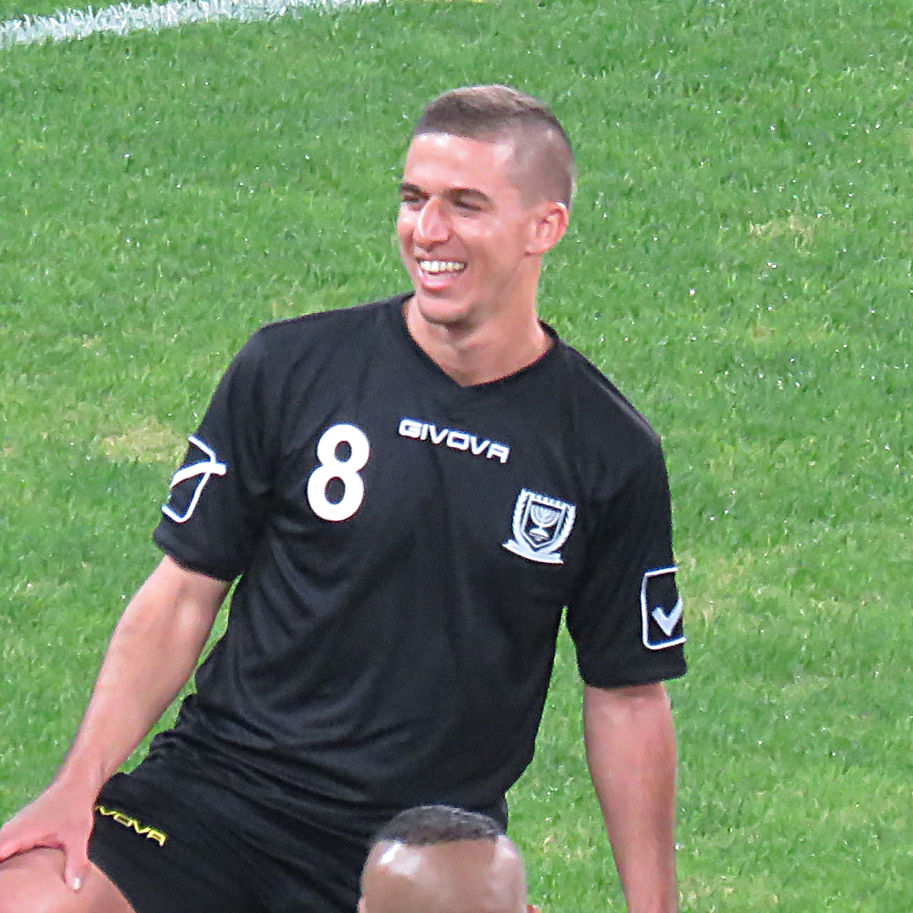 December 2016